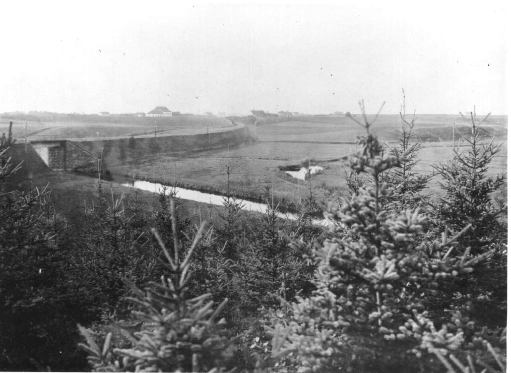 Himmerlandsbanen - railway line in use from 1893 to 1966 (1999 for cargo). Connected Løgstør with Viborg and Hobro, Denmark